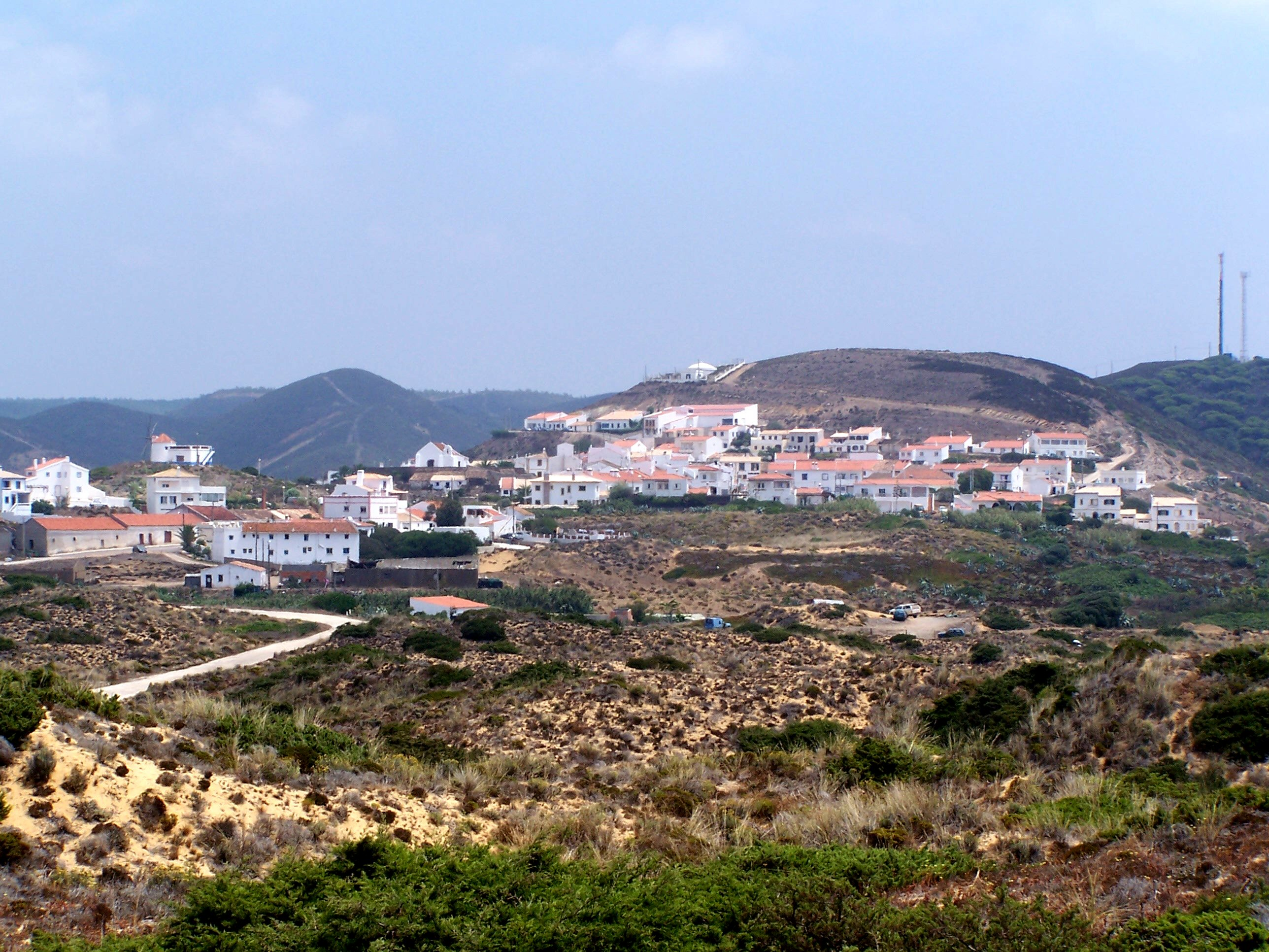 Carrapateira, Bordeira, Aljezur. Viewed from about 37°11′05″N 8°54′08″W / 37.1846°N 8.9021°W looking east.